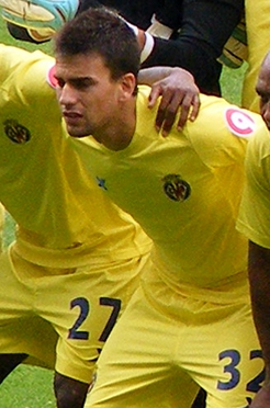 Villarreal starting XI posing before a peseason match at Wigan Athletic.